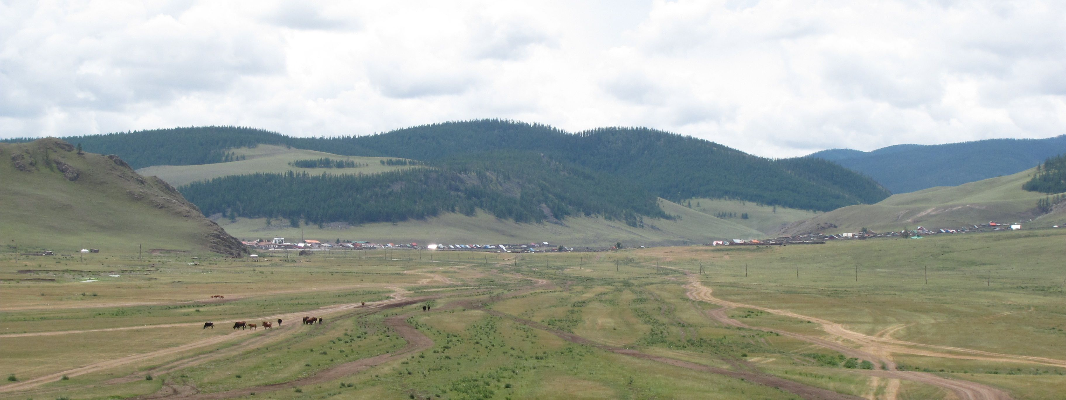 Town of Rashaant, view from the North, Khövsgöl Province, Mongolia